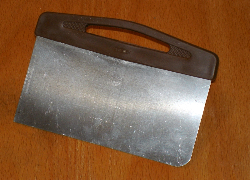 Stainless steel bread scraper with plastic handle.